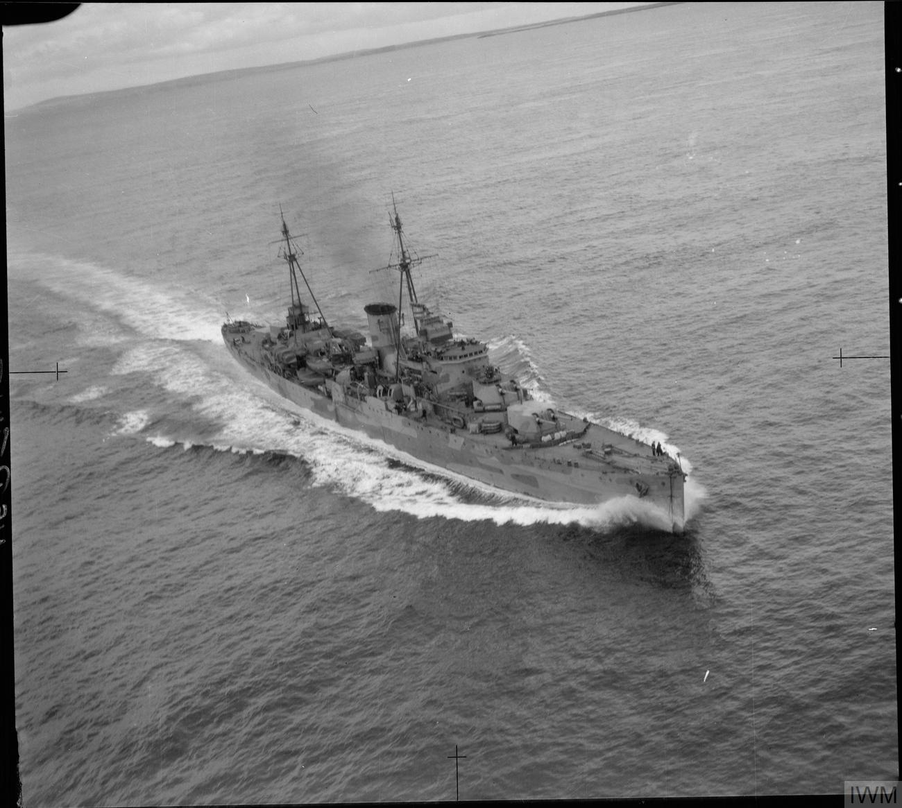 HMS Neptune Underway.